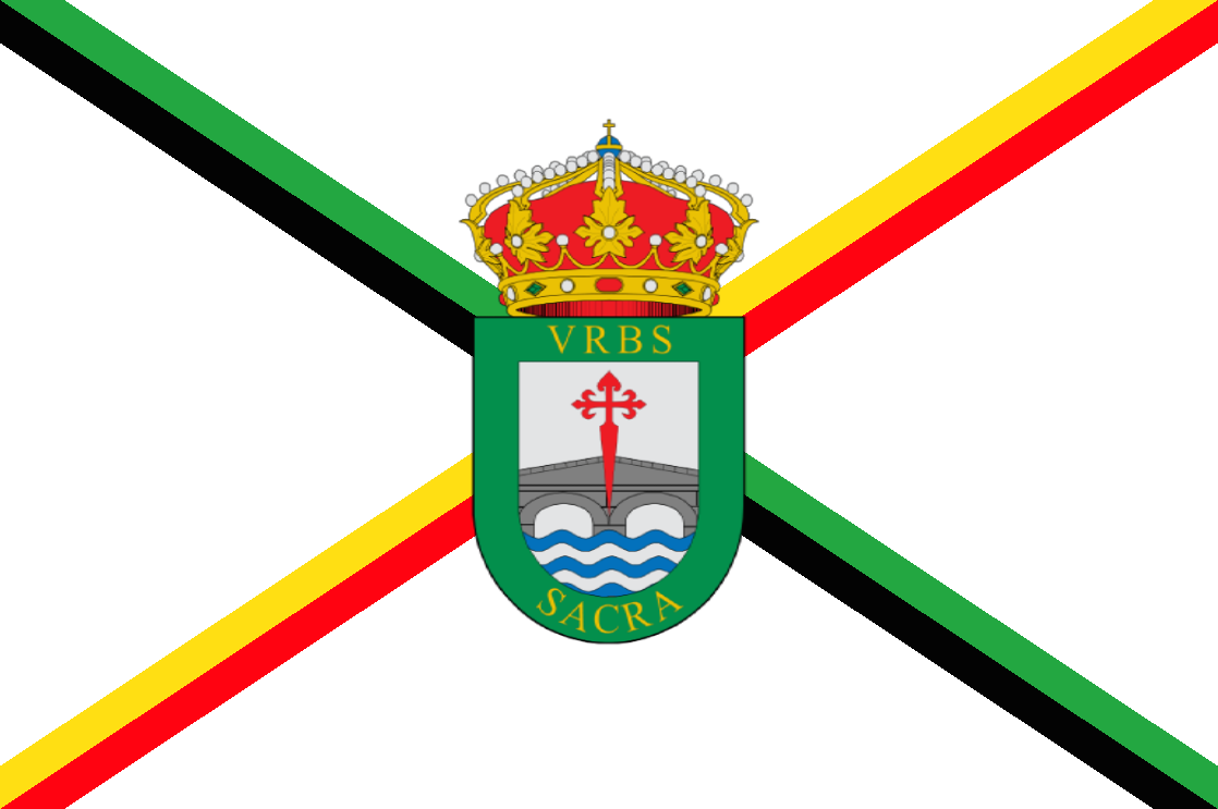 Flag of Usagre, Spain based on "Bandera de Usagre.png" in better quality.